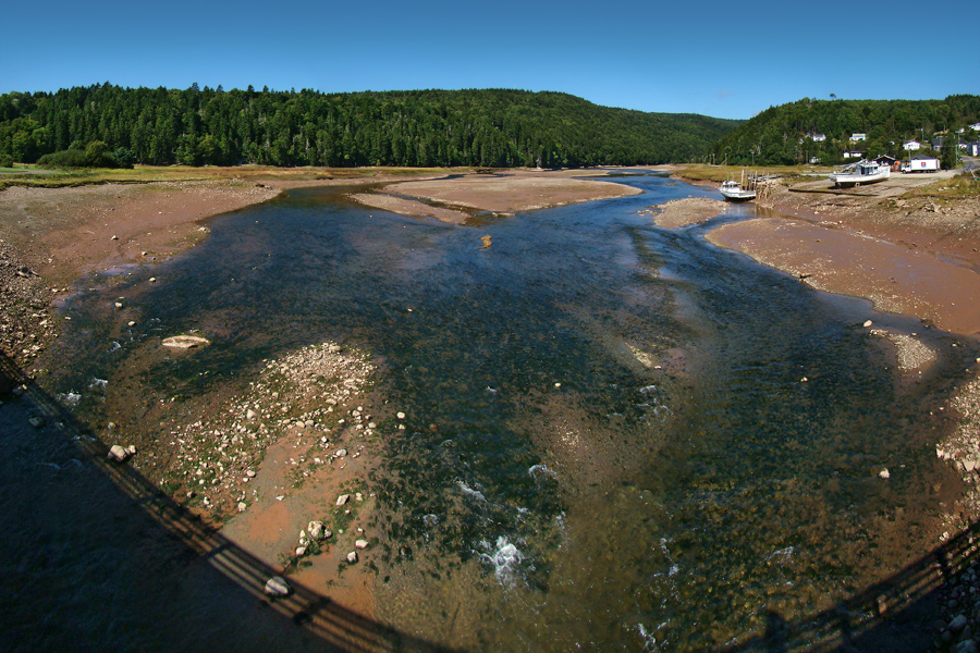 The Upper Salmon River at low tide, New Brunswick, Canada. On the left, the beginning of the Fundy National Park. On the right, the town of Alma.